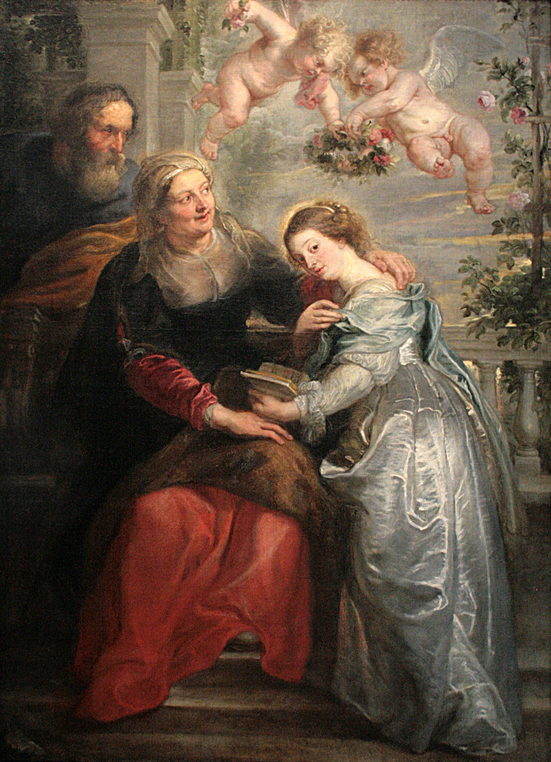 Work belonging to the Royal Museum of Fine Arts, Antwerp photographed during the exhibition « Rubens et son Temps » (Rubens and His Times) at the Museum of Louvre-Lens.